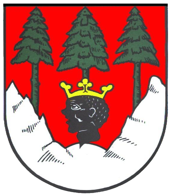 Coat of Arms of Mittenwald